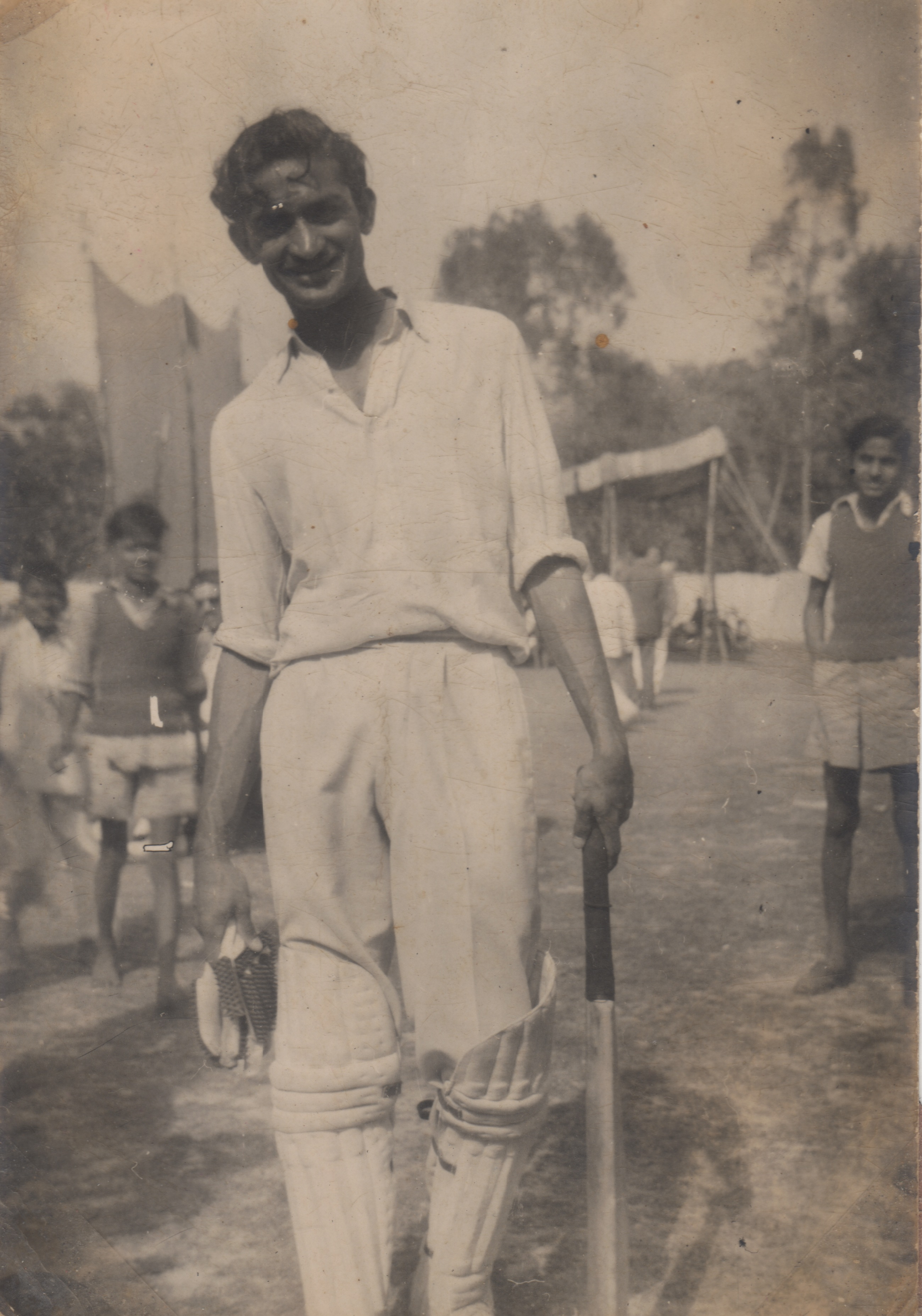 At Green Park Stadium, Kanpur - going out to bat